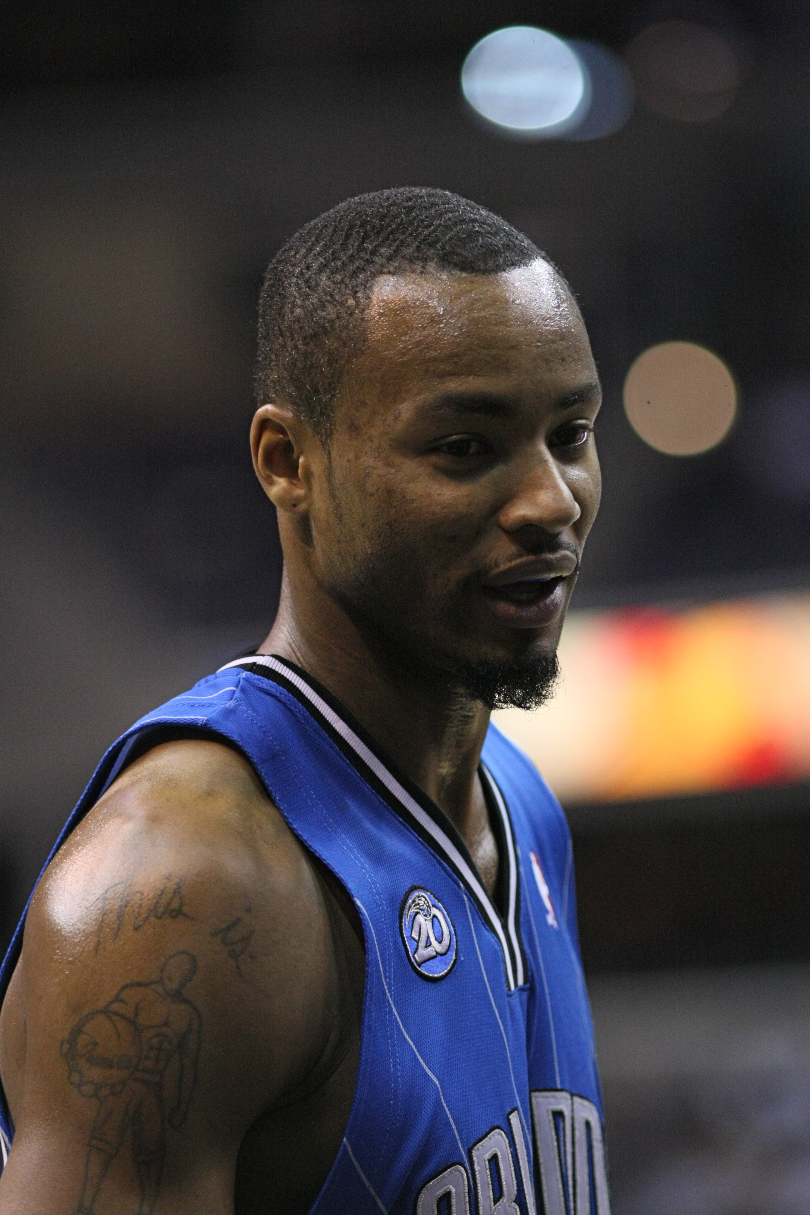 Rashard Lewis at the Washington Wizards v/s Orlando Magic game on 11/27/08